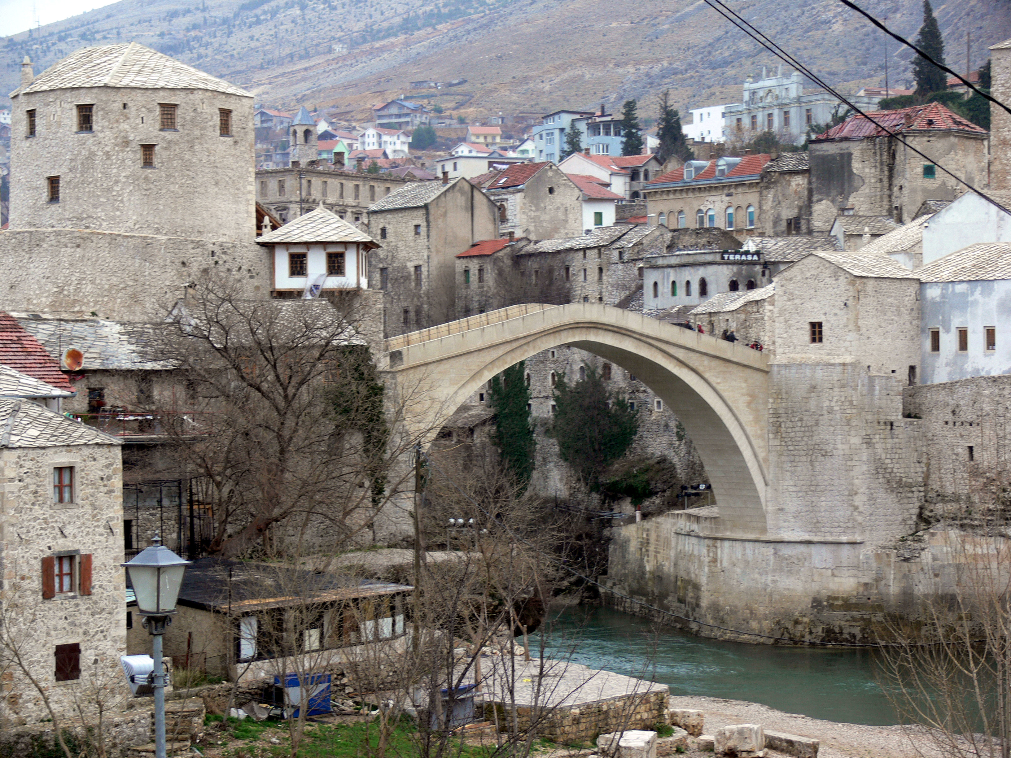 The bridge Stari Most in Mostar.